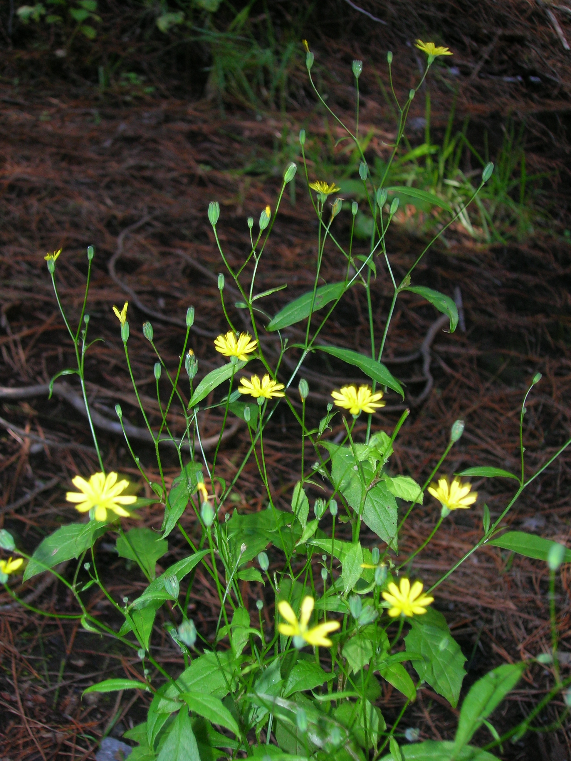 Lapsana communis (habit). Location: Maui, Polipoli